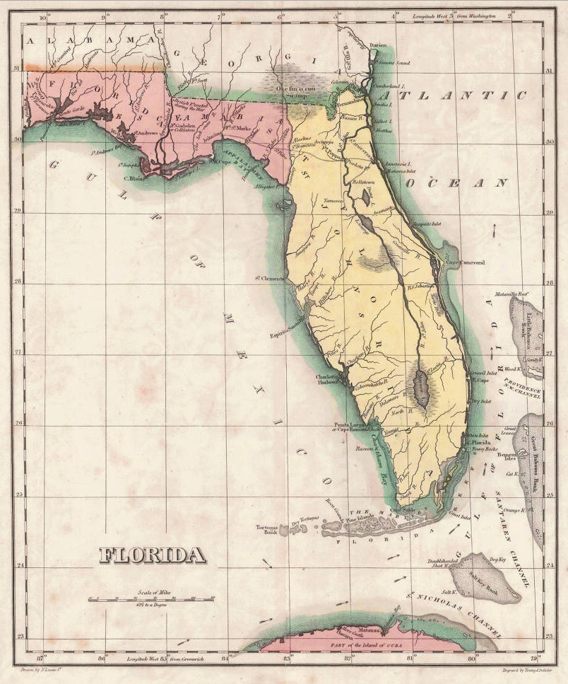 1822 map of Florida Territory, published less then a year after Florida was ceded to the U.S. by Spain. The map delineates the territory's two original counties – Escambia and St. Johns, whose initial boundaries were conterminous with those of the earlier districts of East and West Florida. The interior river system is still largely anecdote and conjecture. Two roads lead west out of St. Augustine, one to Rollstown on the St. Johns River and the other to Ivitachua. A number of early northern forts are listed, including Ft. Barancas, Ft. Gadsden or Collinton, Ft. St. Marks, Ft. Poppa, Picolota Ft., and a British Fort erected during the war on the Apalachicola River.